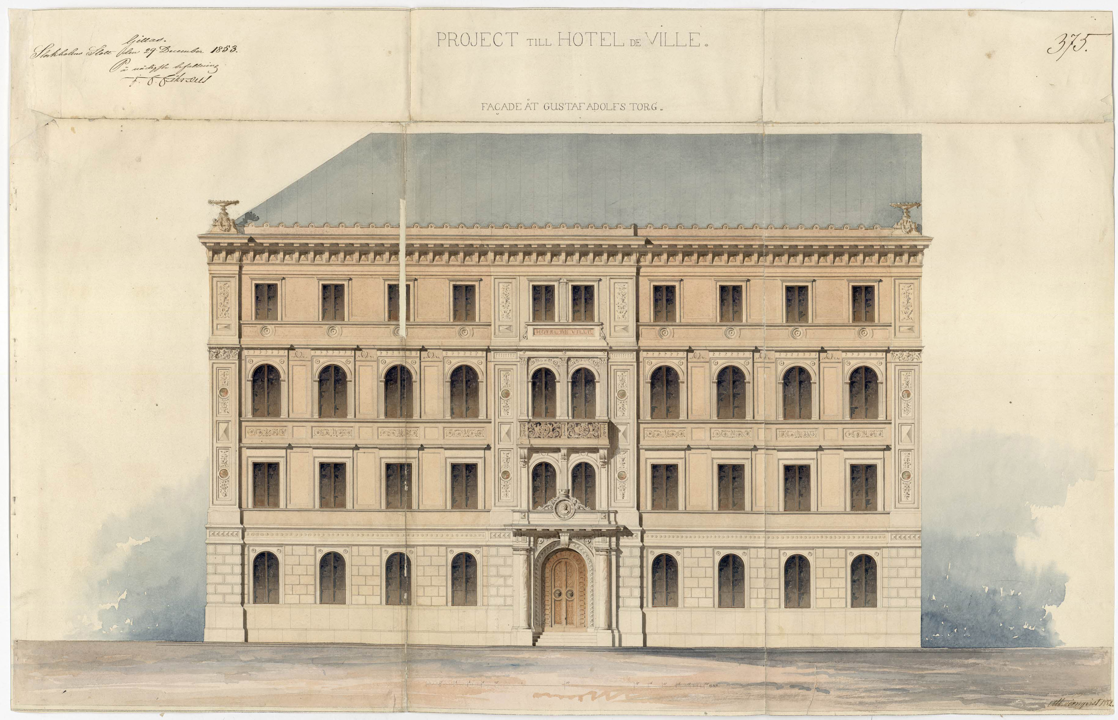 Hotel Rydberg, Stockholm, Sweden